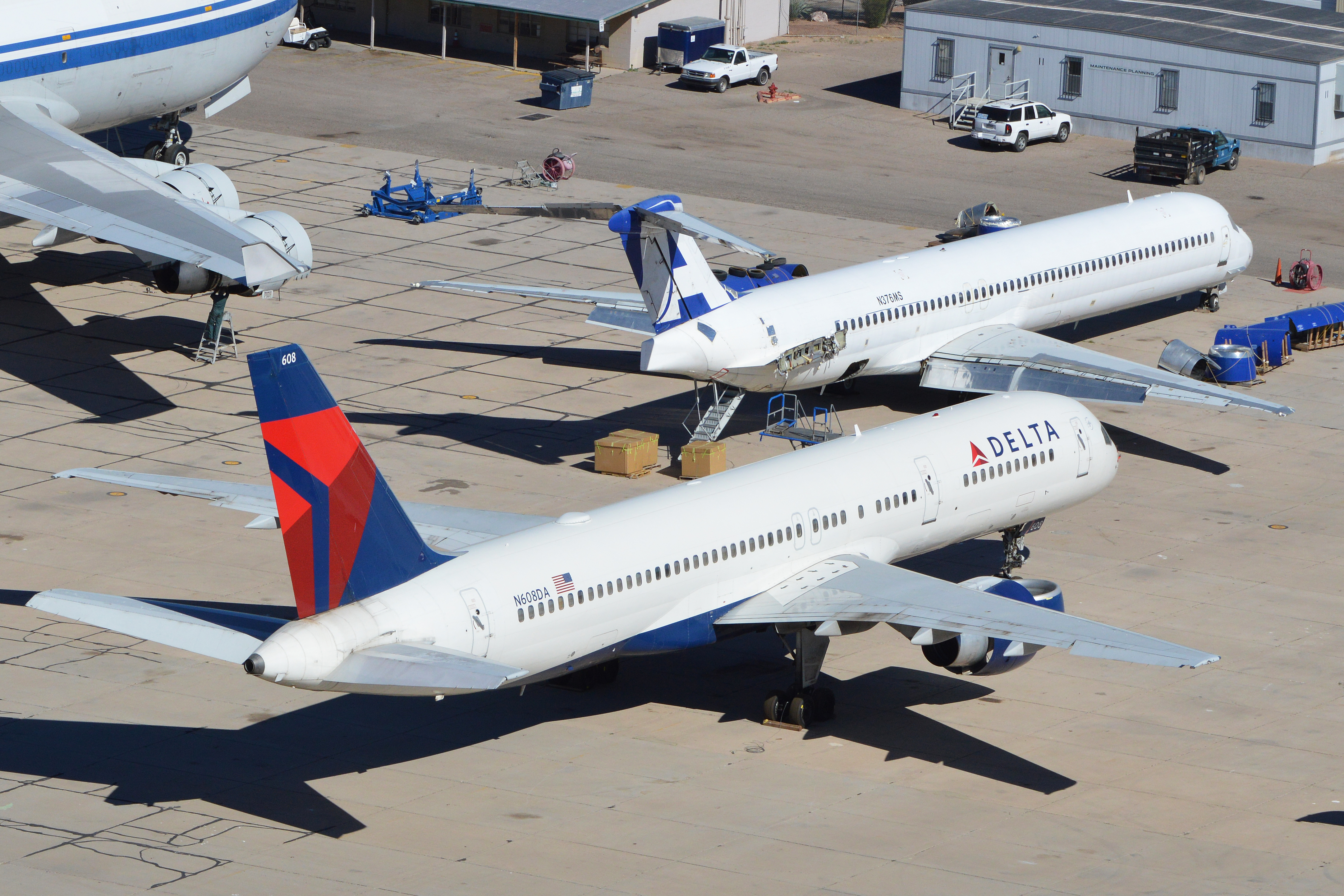 Two of the many airliners stored at Pinal. Nearest is ex Delta Boeing 757 'N608DA' c/n 22815, l/n 64. Behind is MD-83 'N376MS'. This was built in 1990 for Airtours as G-JSMC, later reregistered as G-DEVR. It also flew as 'N881RA' with American Airlines and 'C-FKLI' with Jetsgo. It later became N941MT and then LV-BDO before retirement. c/n 49941, l/n 1793. Pinal Air Park, Marana. Arizona, USA. 09-2-2014